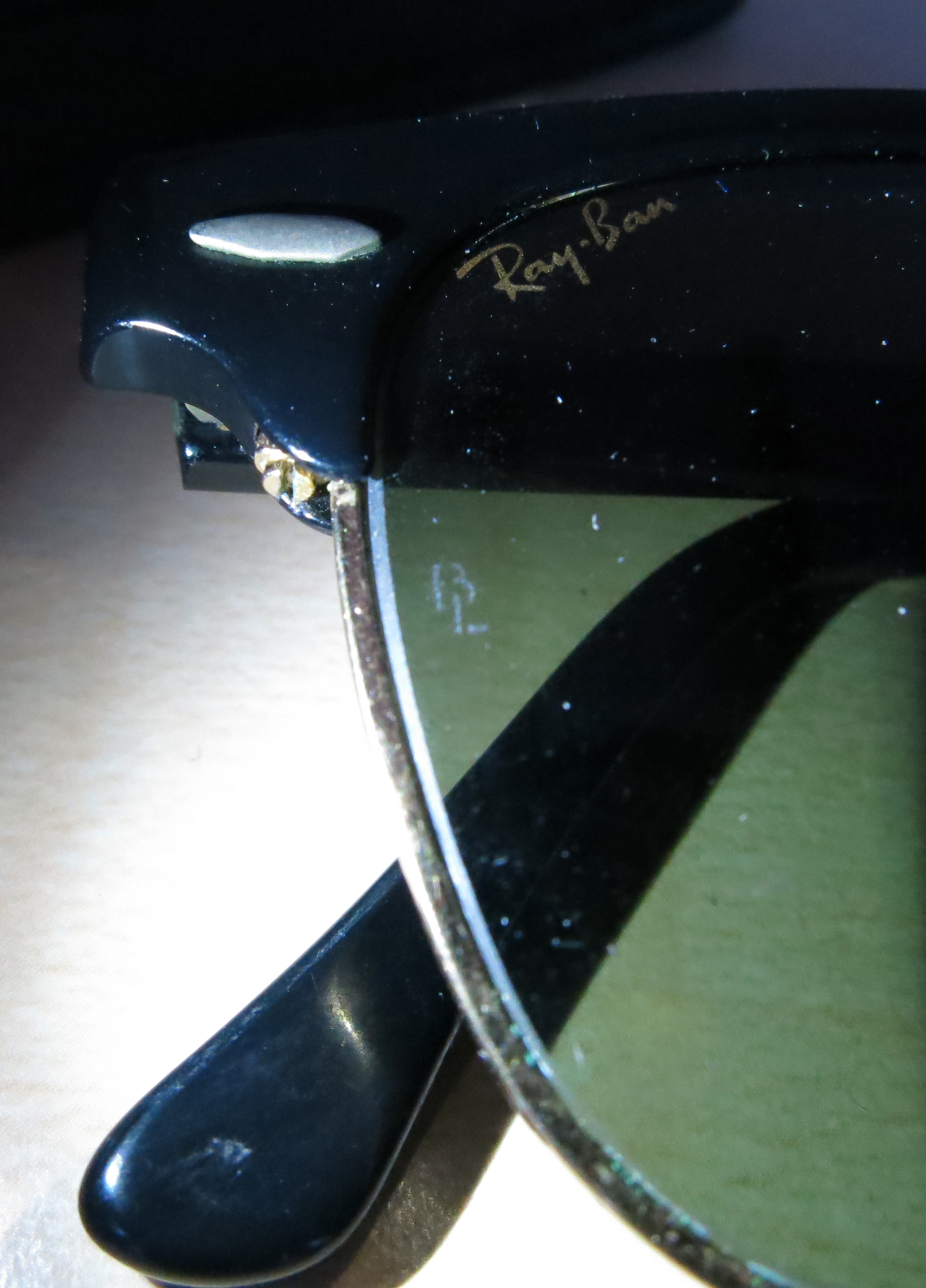 Bausch and Lomb W0365 Clubmaster sunglasses